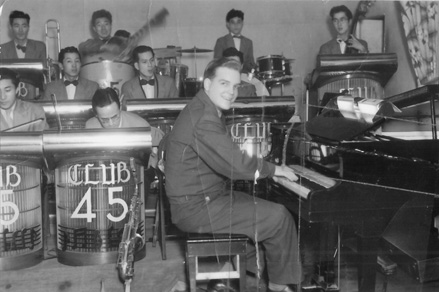 Photograph of Pvt Jack Melick playing the piano with his local band at the Yokohama R&R Center in Yokohama Japan, 1953. Photo courtesy of Jack Melick. Other information I am publishing a new biographical Wiki article on the subject in the picture, John T. Melick, Jr. He is a fairly well-known (in his genre) pianist and bandleader. He is one of two remaining Big Band leaders left alive. The other, Ray Anthony, is inactive. This picture is a cropped version of a photo that was taken of him in 1953 by an unknown friend. It has been in his scrapbook for almost 60 years. He provided it for use here.